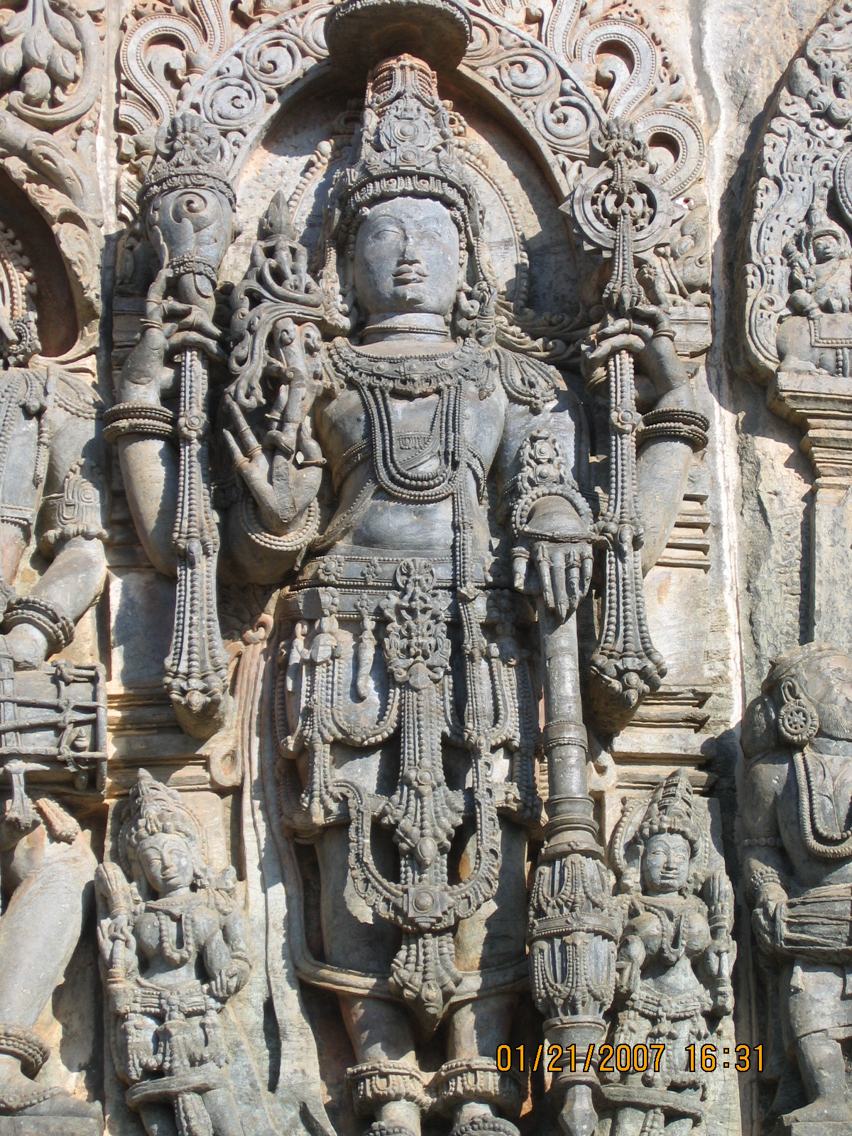 Vishnu at Halebeedu